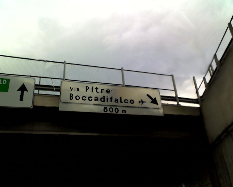 Road sign of Boccadifalco airport exit.